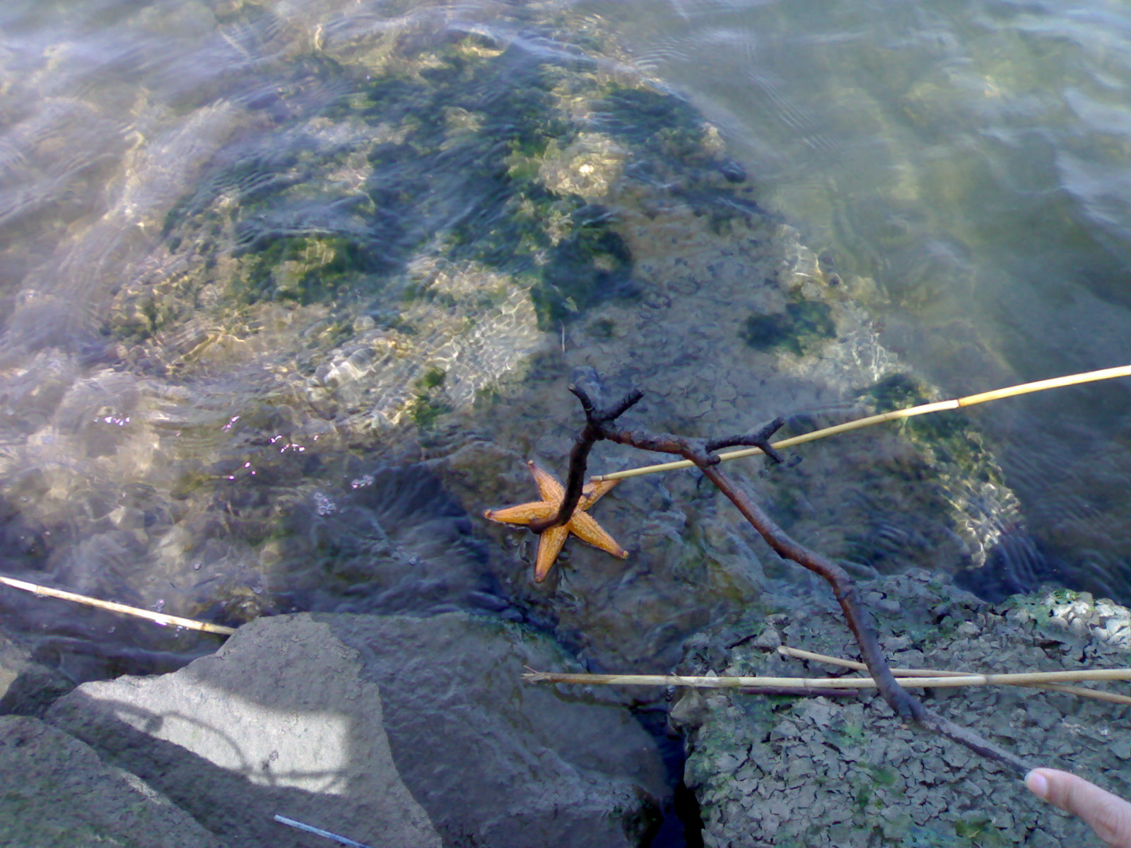 A starfish in the Maribyrnong river in Victoria, Australia.